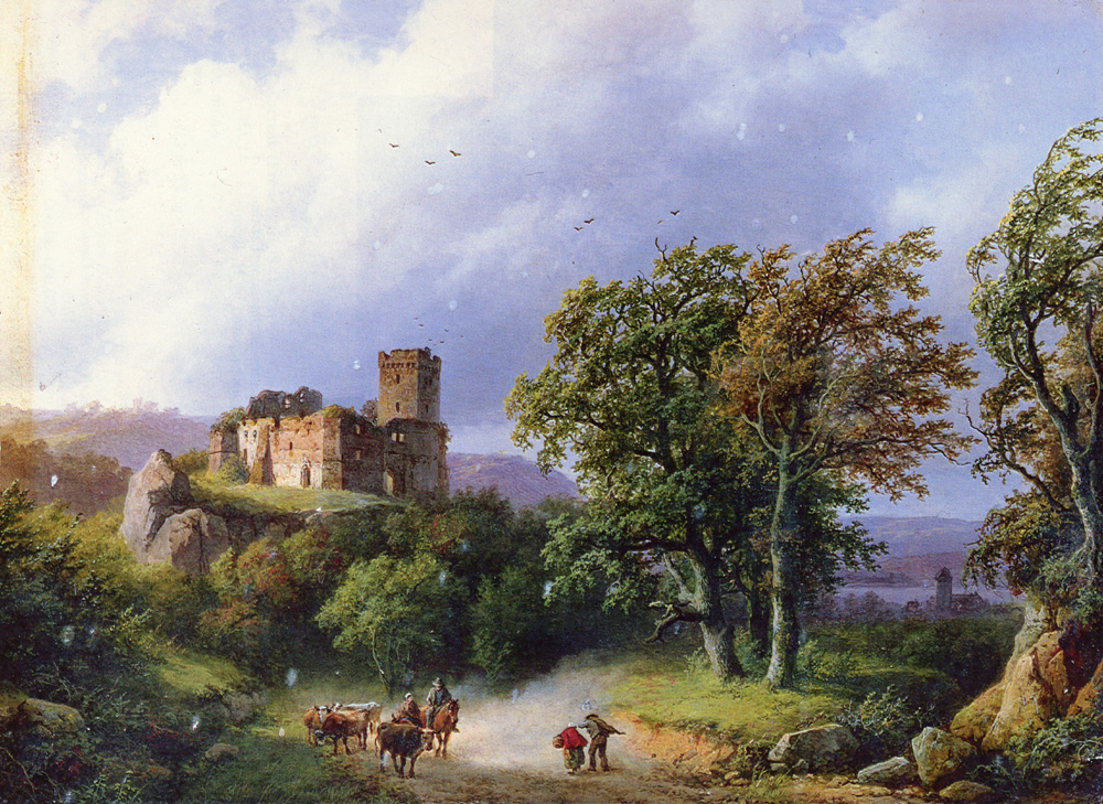 The Ruined Castle